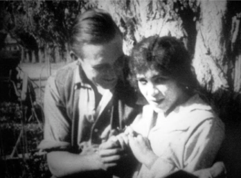 Screenshot from Love and the Law (1913) film